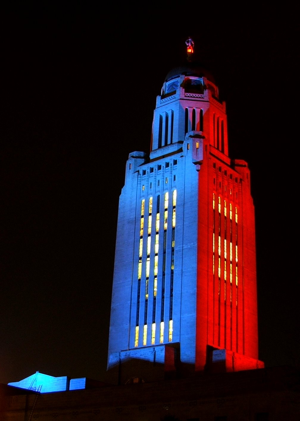 Does anyone know why these colored lights are on the capitol tonight? Not only does our state capitol look like an enormous phallic symbol, it is now patriotic as well. This shot was taken from directly across the street, using both timer and tripod. (I wish it wasn't slightly crooked.) I wonder if I would have noticed the colors, if not enjoying a leisurely commute home by bicycle? So here's to learning to take a slower pace. :) You can learn more about our capitol's history at And please join us for December's LincolnFlickr Photowalk as we explore this very building!